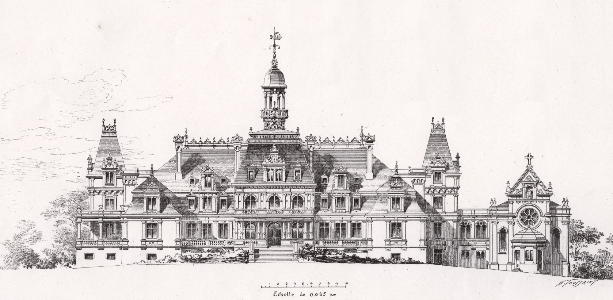 1880 architectural proposal for Sobanski Palace, Poland